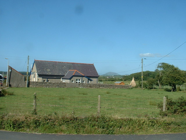 School near Llidiardau.